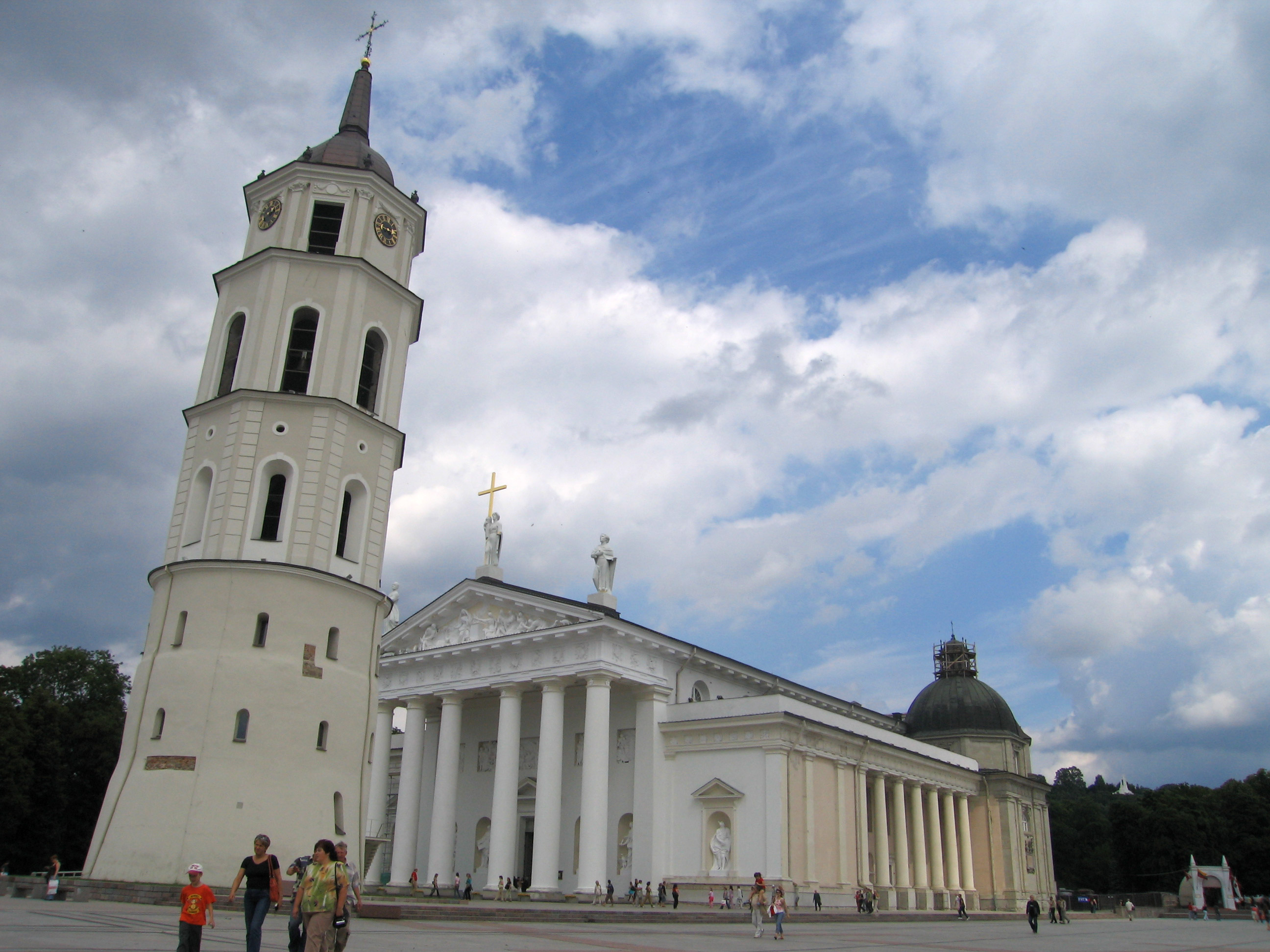 Cathetral square 2007 July 15.jpg